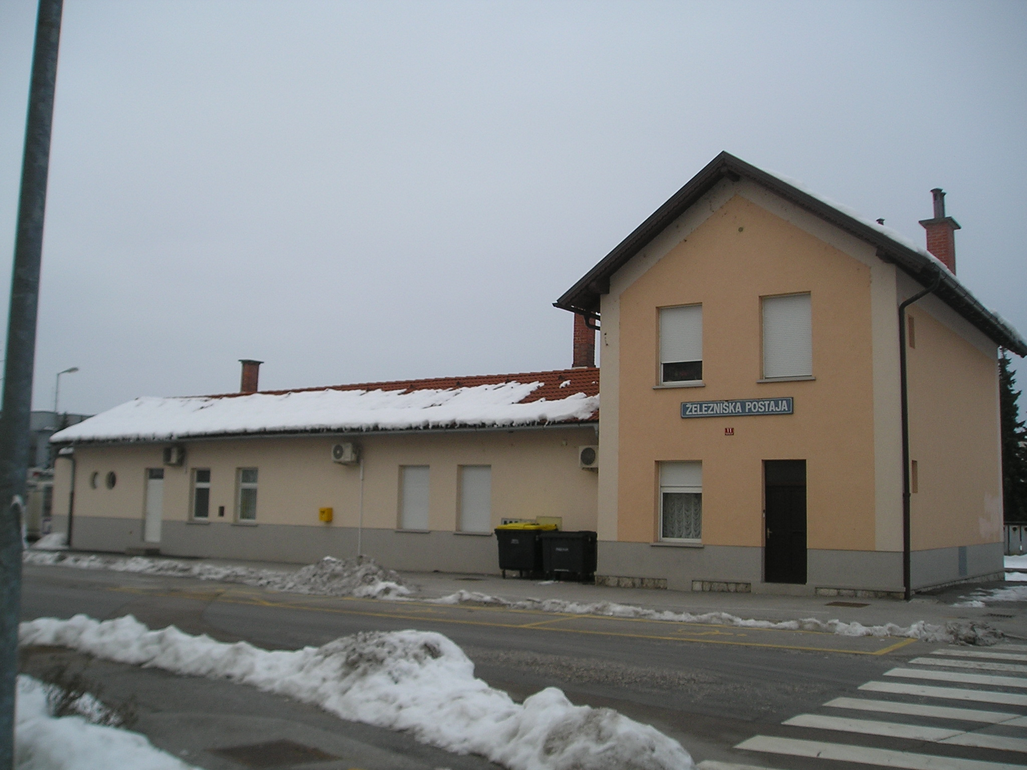 Front side of the train station in Domžale, Slovenia